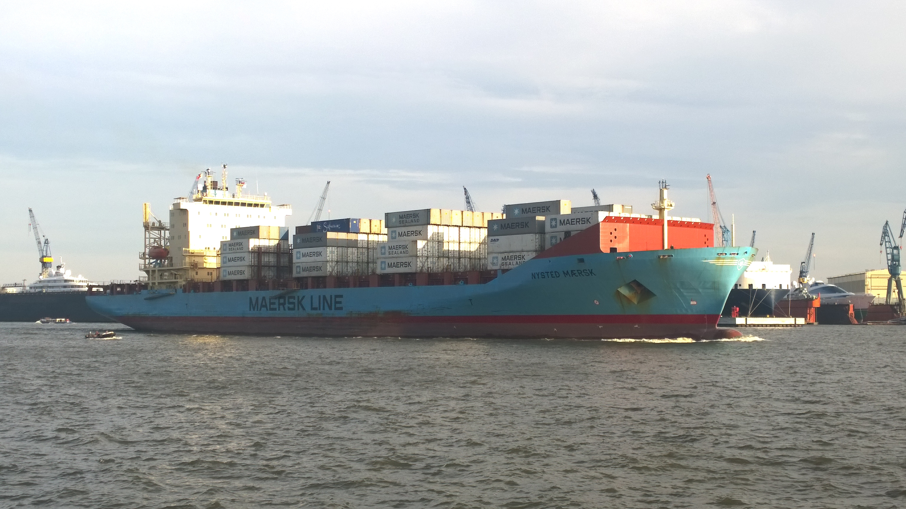 Container ship Nysted Maersk starting port of Hamburg in March 2017